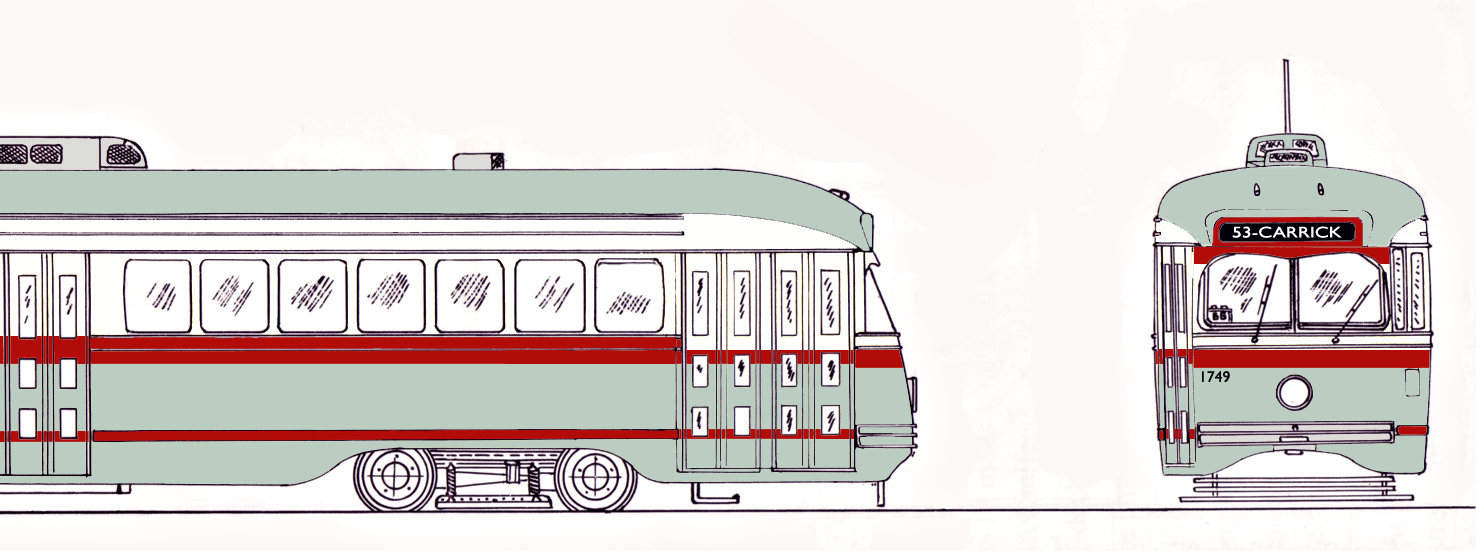 «(Pittsburgh) Port Authority Transit : Color scheme» (original caption)